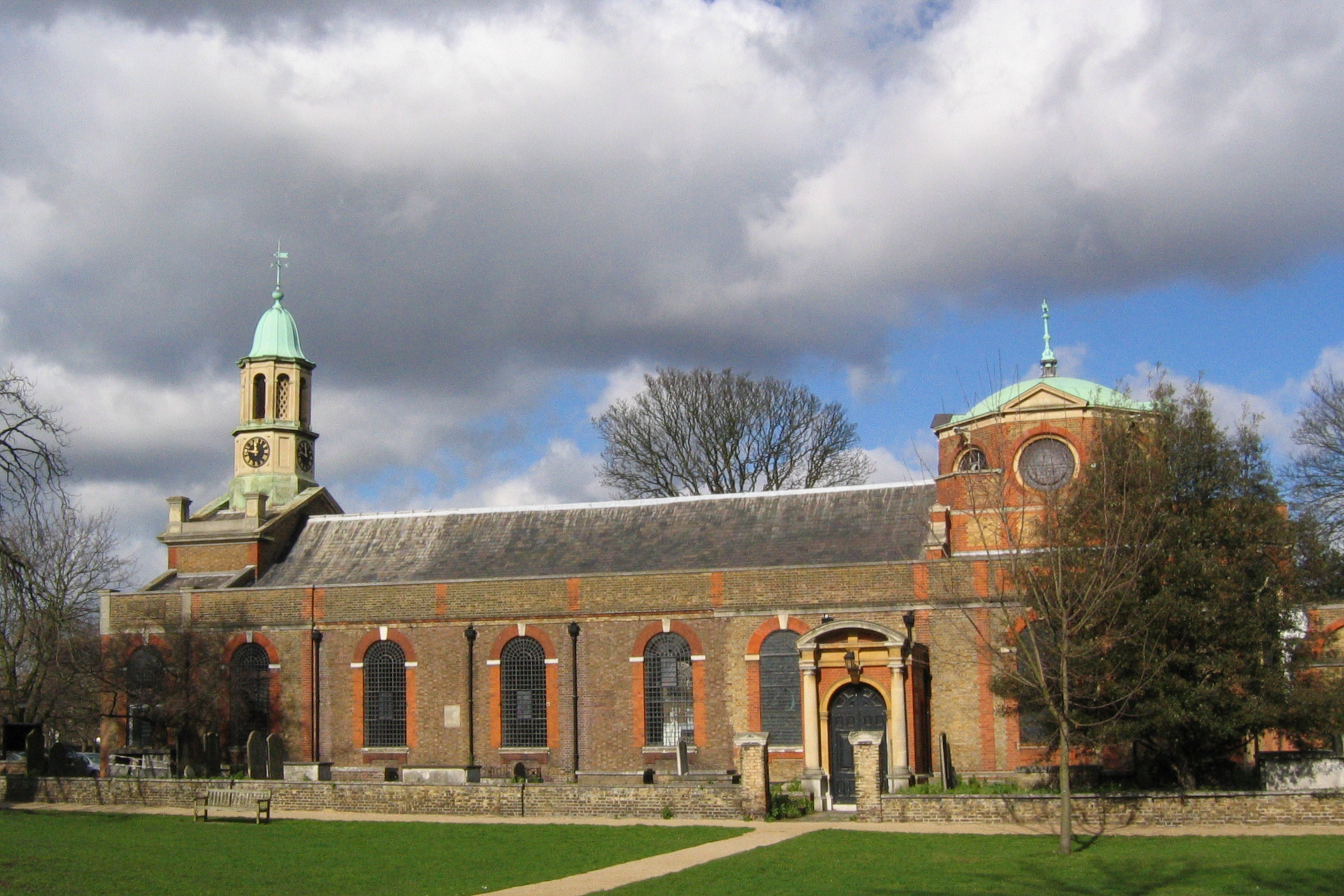 St Anne's church, Kew Green. Originally on English Wikipedia. Moved by author